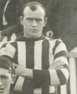 Photograph of Joe Scaddan in 1910